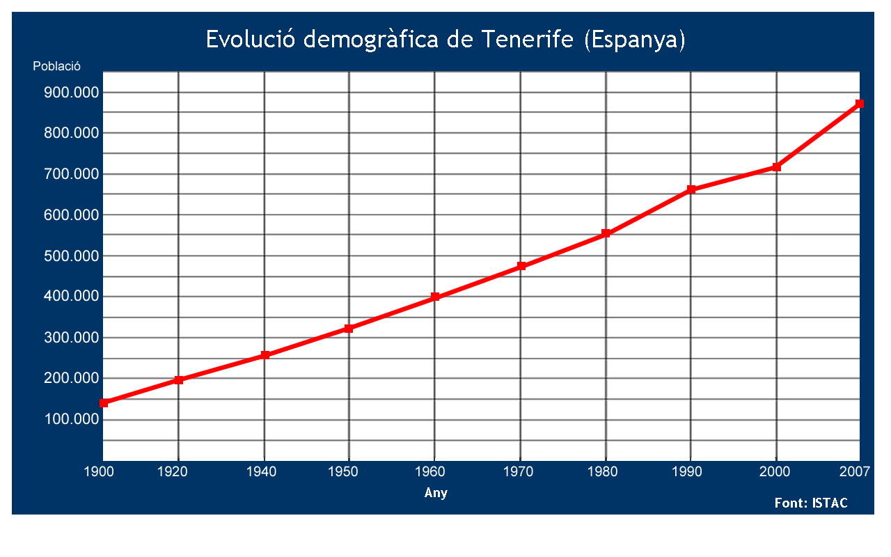 Evolution of the demographics of Tenerife, with tags in Catalan.